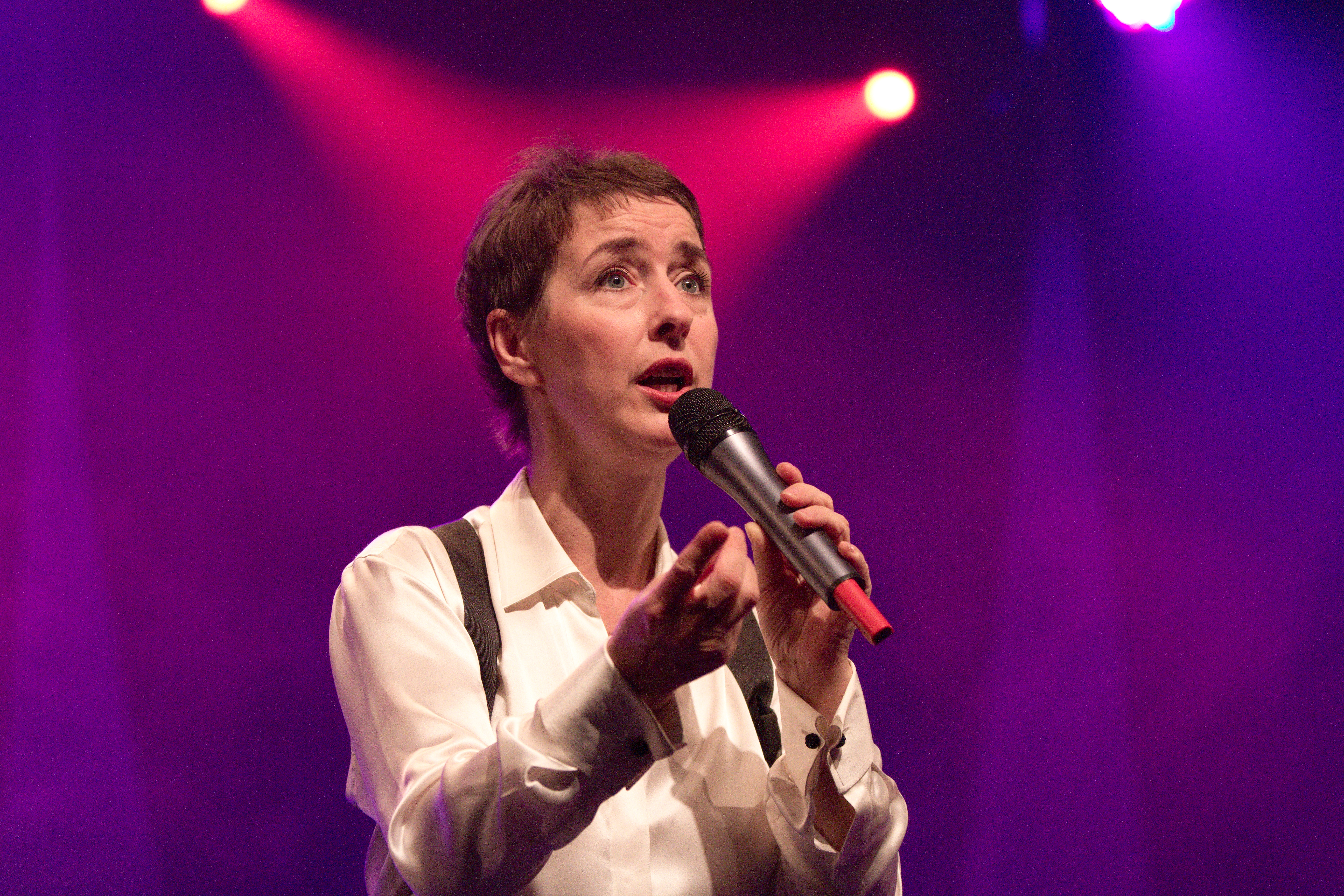 Enzo Enzo live during the French song festival 2010 in Aix-en-Provence (France).